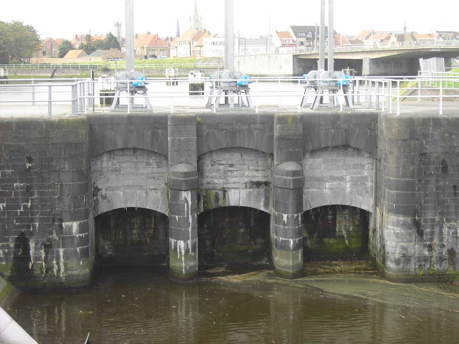 The lowered sliding panels of the floodgate as seen from the seaside.